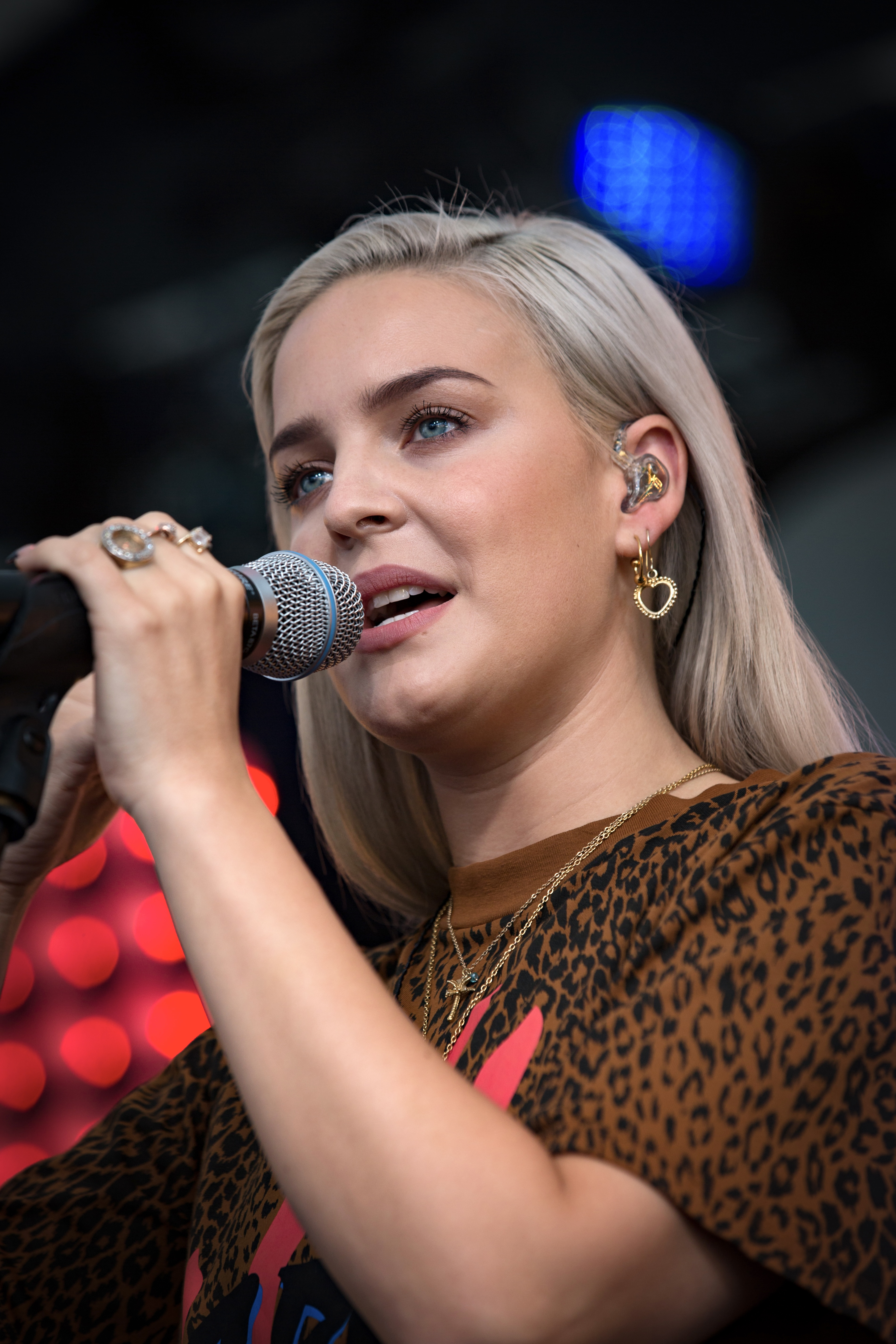 Singer Anne-Marie at the SWR3 New Pop Festival 2017